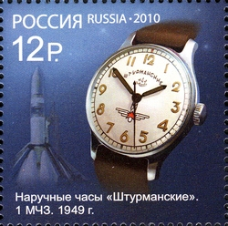 Wrist watch "Shturmanskie"